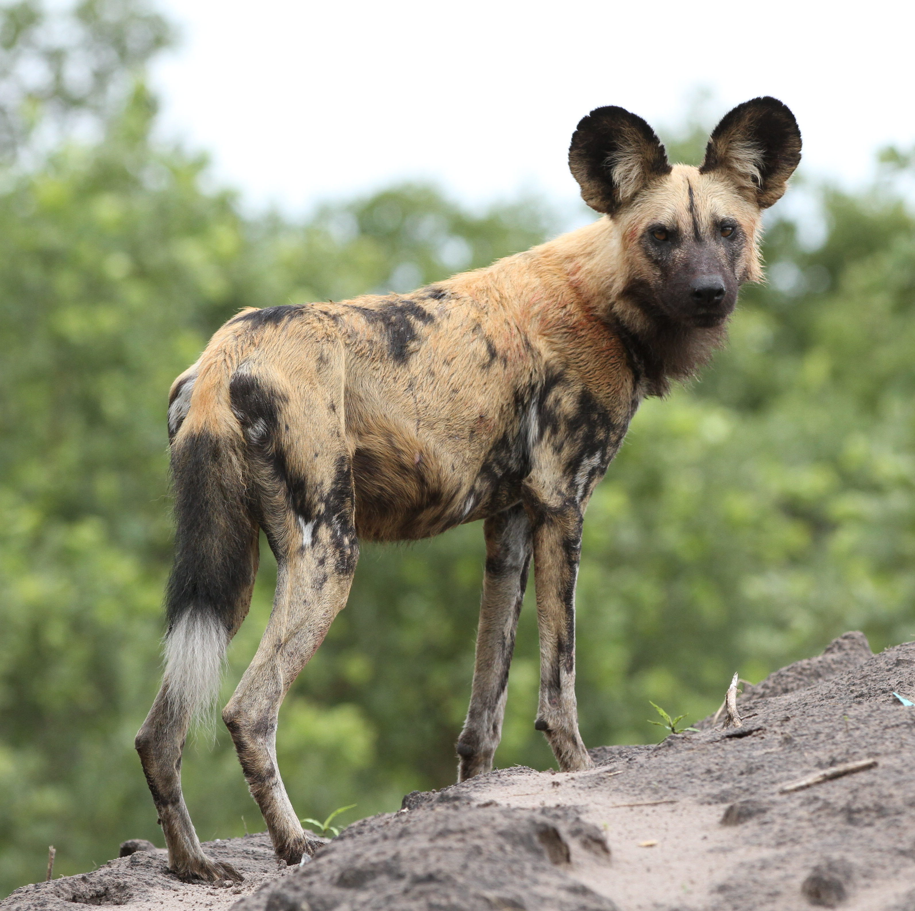 African painted dog, or African wild dog, Lycaon pictus at Savuti, Chobe National Park, Botswana.